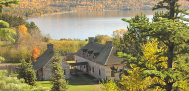 Grand Hall, kitchen building and stockade at Grand Portage National Monument, Minnesota, USA